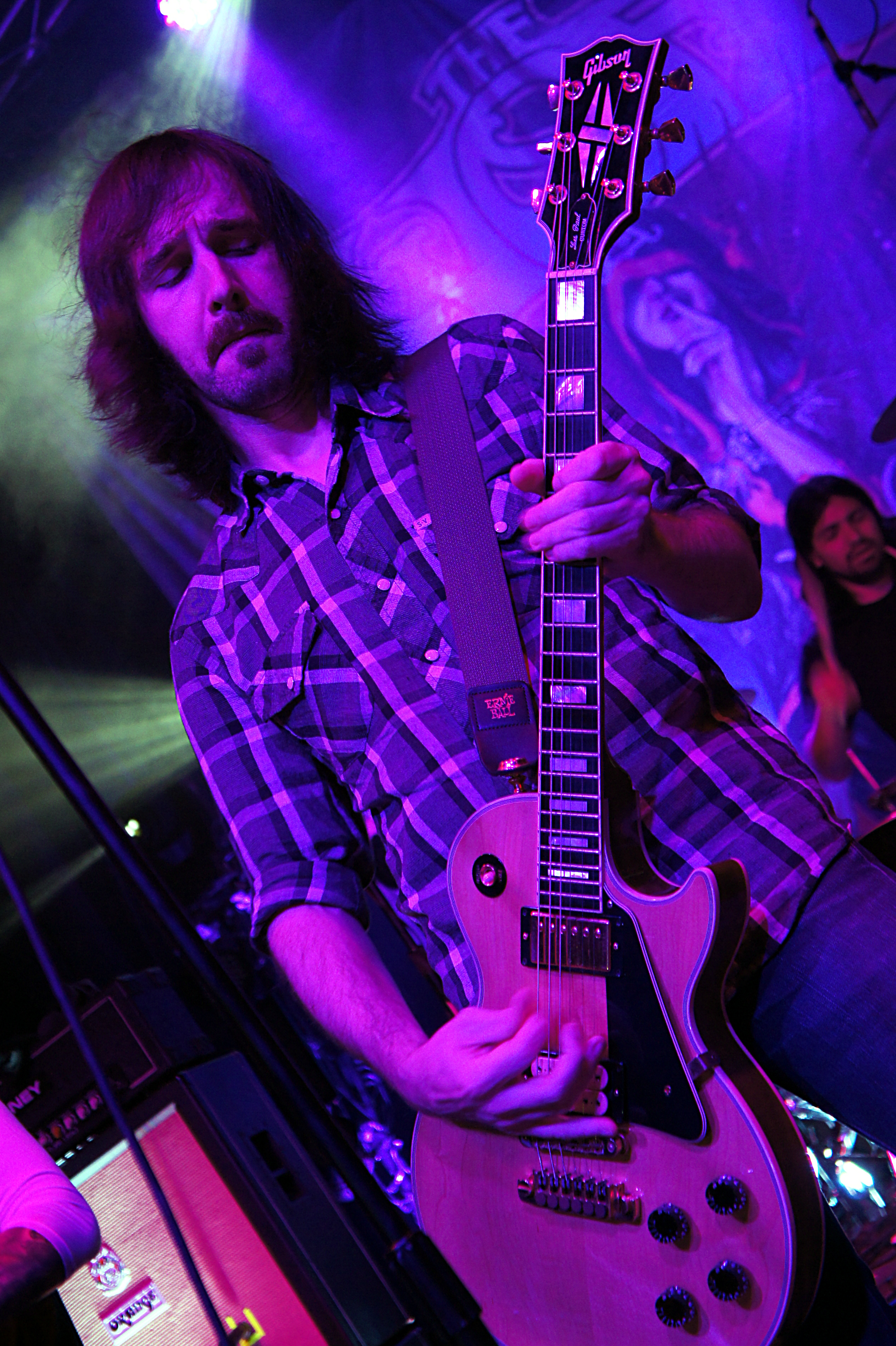 Guitarist and vocalist J. D. Cronise performing with American heavy metal band The Sword at The Observatory in Santa Ana, California on August 1, 2013.